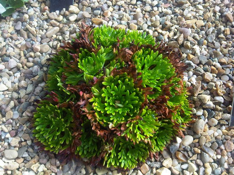 Saxifraga fragilis in Kew Gardens. This is the Saxifraga fragilis subsp. paniculata - syn: Saxifraga fragilis subsp. valentina.